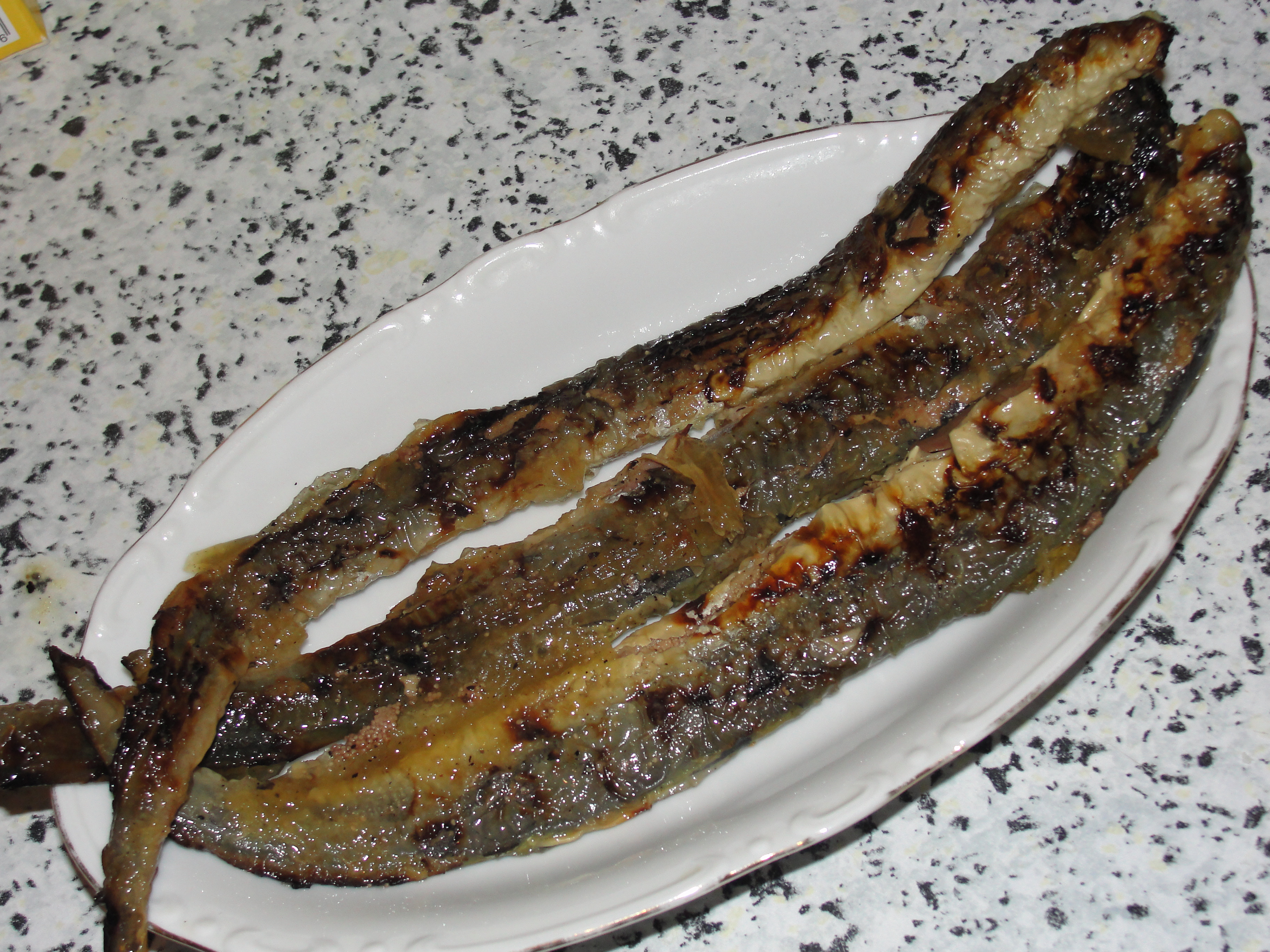 Grilled lampry in jelly (Moscow, Russia)